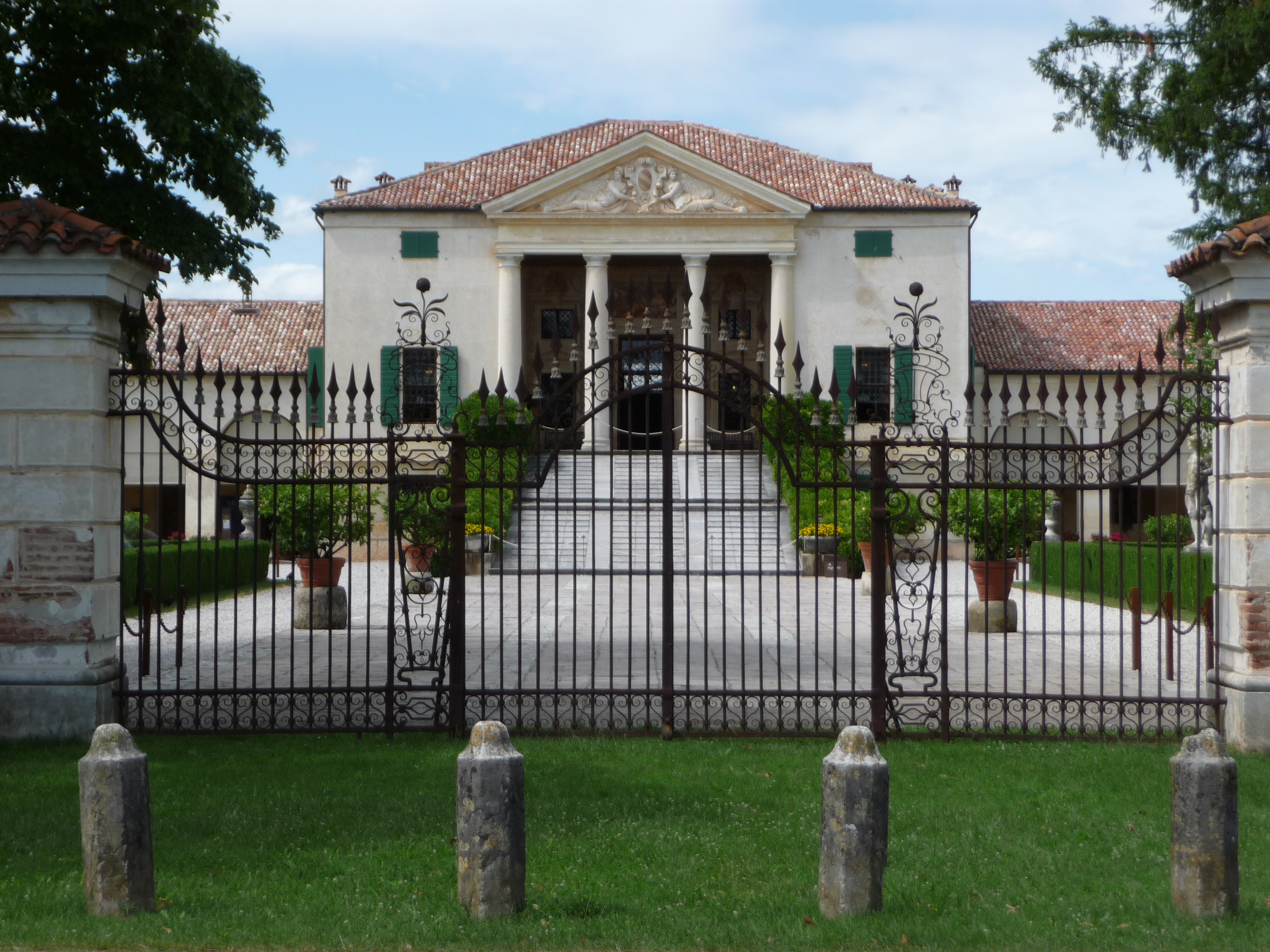 Villa Emo in Fanzolo di Vedelago, province of Treviso, Italy, designed by Andrea Palladio about 1558.